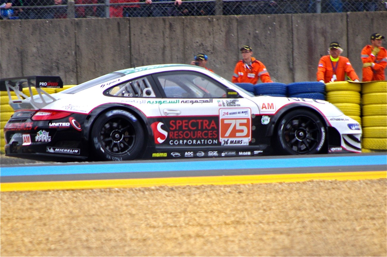 Prospeed Competition's Porsche 911 GT3 RSR Driven by Abdulaziz Al-Faisal, Bret Curtis and Sean Edwards at Le Mans 2012.